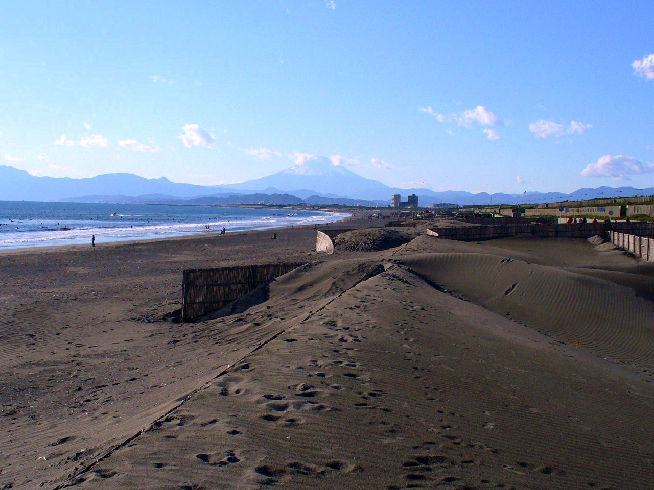 Kugenuma Beach.